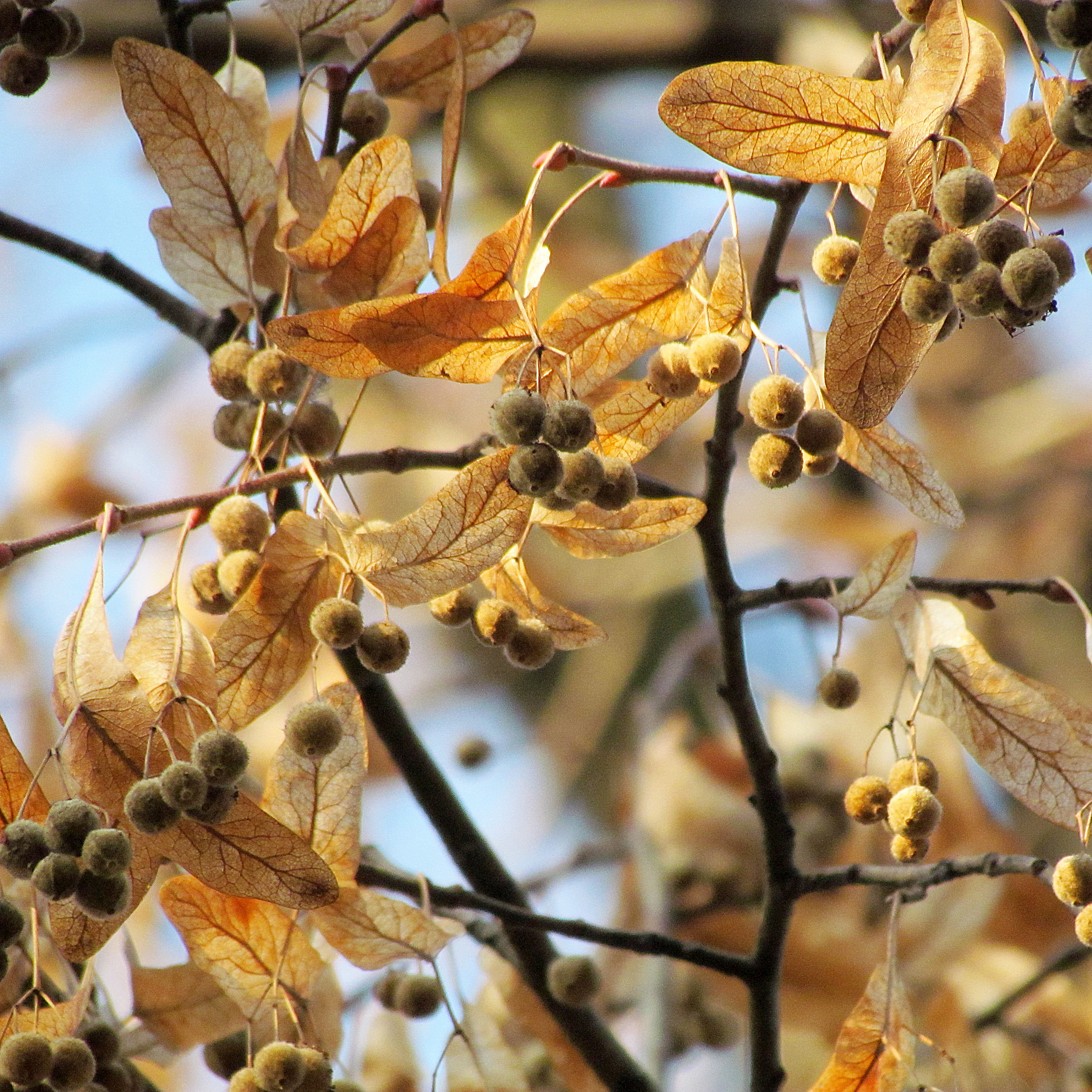 Tilia cordata fruits, winter